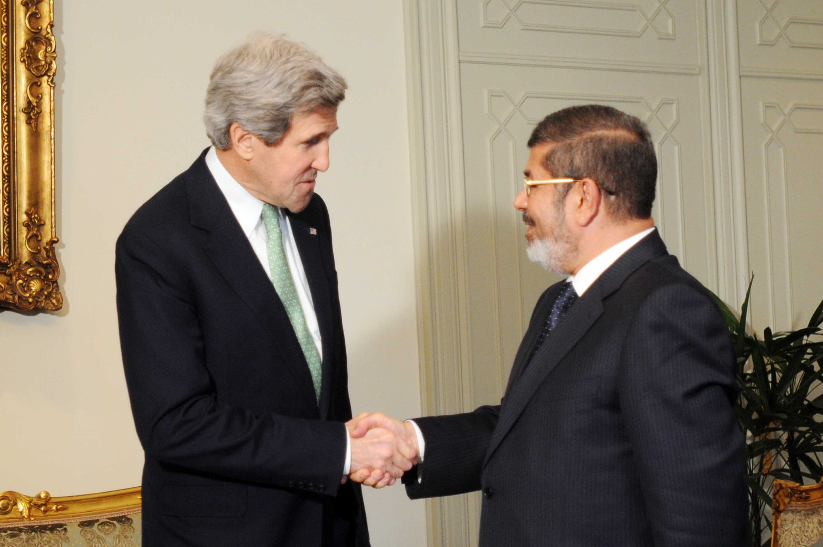 U.S. Secretary of State John Kerry meets with Egyptian President Mohamed Morsi in Cairo, Egypt on March 3, 2013. [State Department photo/ Public Domain]